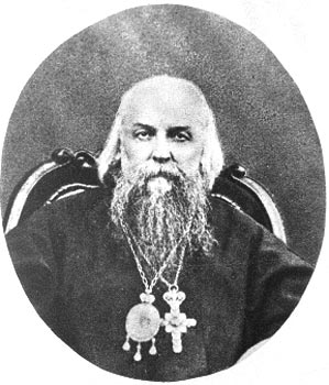 Bishop St. Ignatius Brianchaninov (1807-1867).